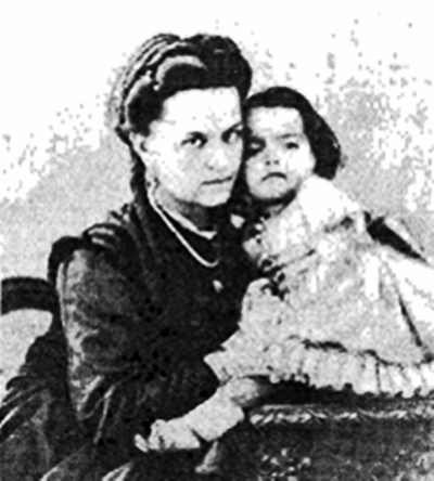 Maria Angélica de Sousa Queirós Aguiar de Barros and her daugther, also named Maria Angélica.